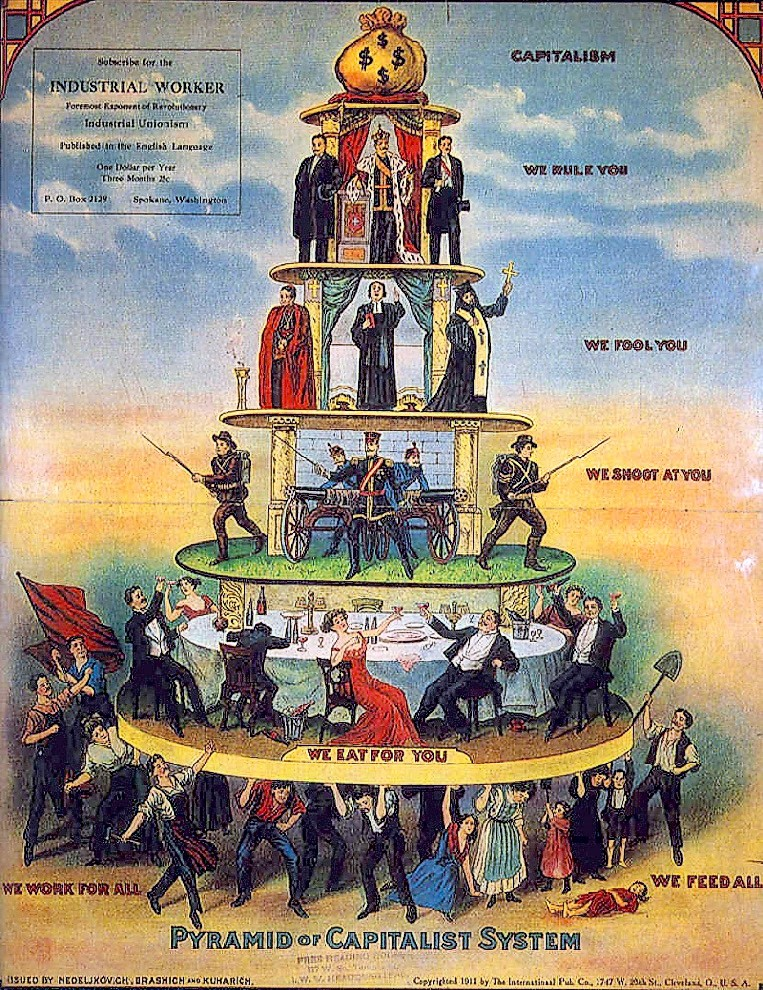 A 1911 Industrial Worker (IWW newspaper) publication advocating industrial unionism that shows the critique of capitalism. It is based on a flyer of the "Union of Russian Socialists" spread in 1900 and 1901 (the File:Capitalist pyramid 1900.png)